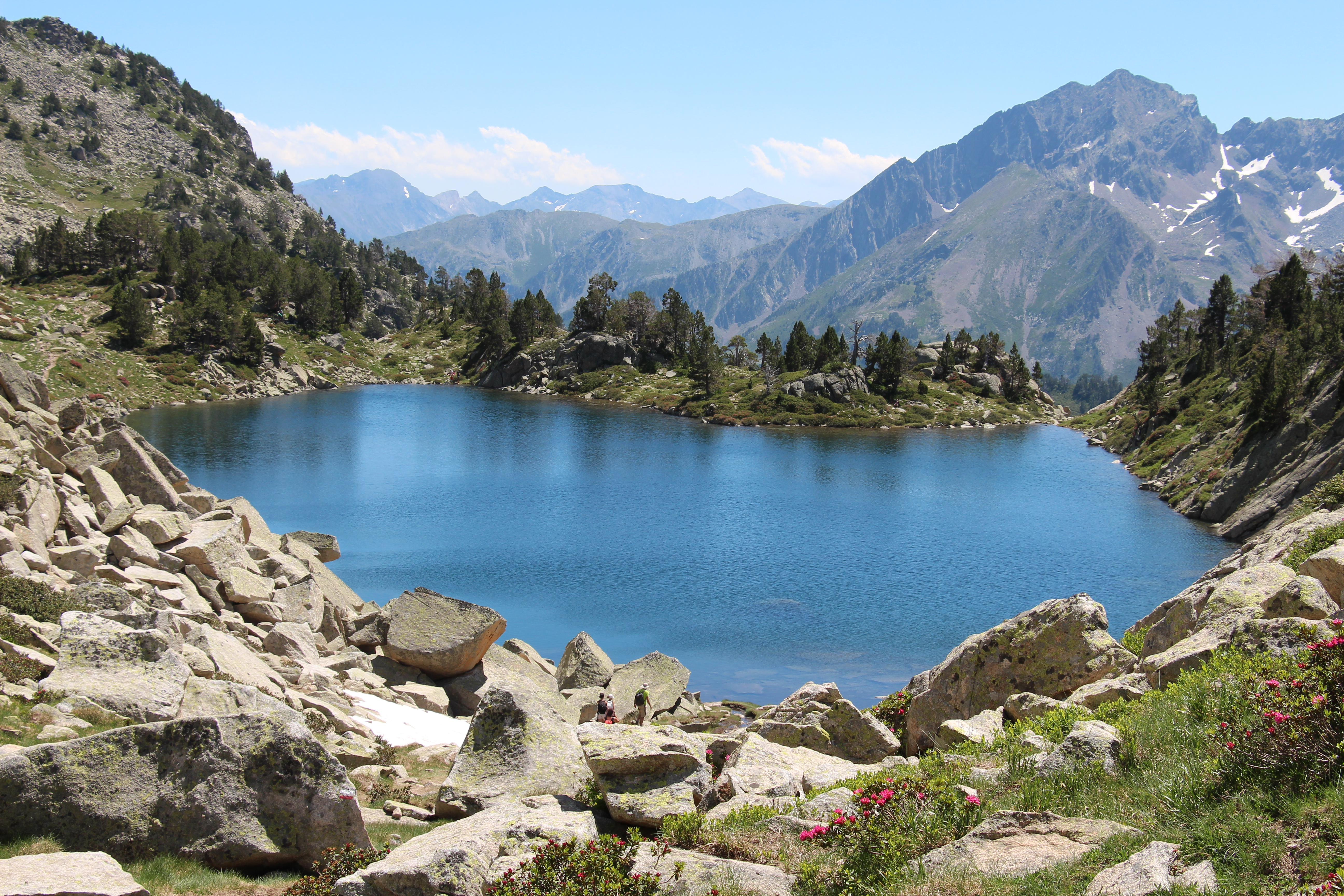 Néouvielle National Nature Reserve, Gourg de Rabas. View on the pic de Bugatet